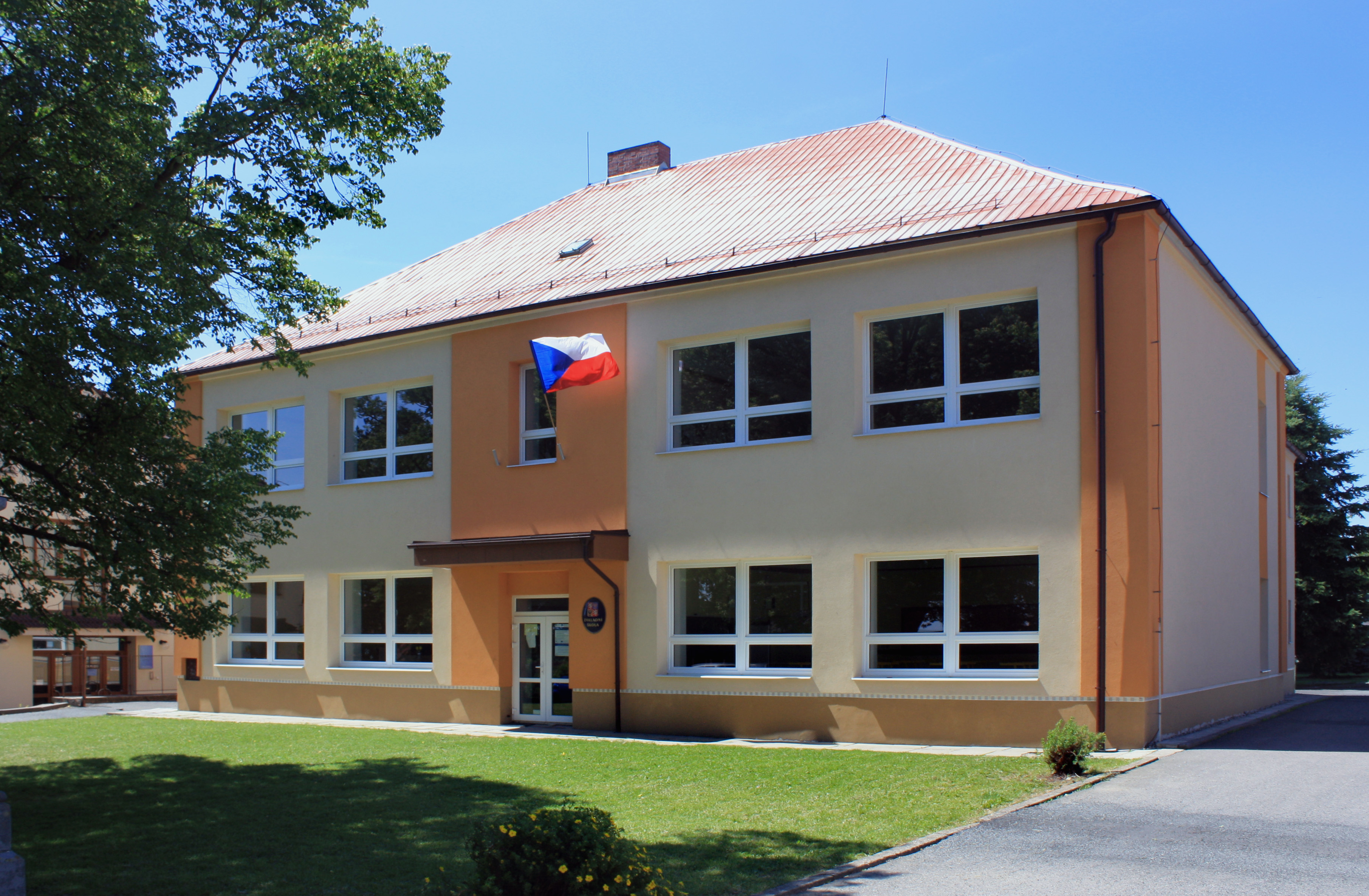 Elementary school in Sebranice, Czech Republic